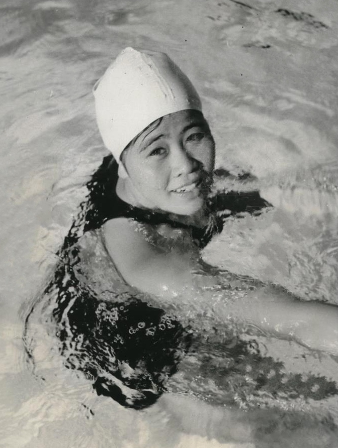 1932 Press Photo Hatsuka Morioka, Japanese swim team member, at Olympics